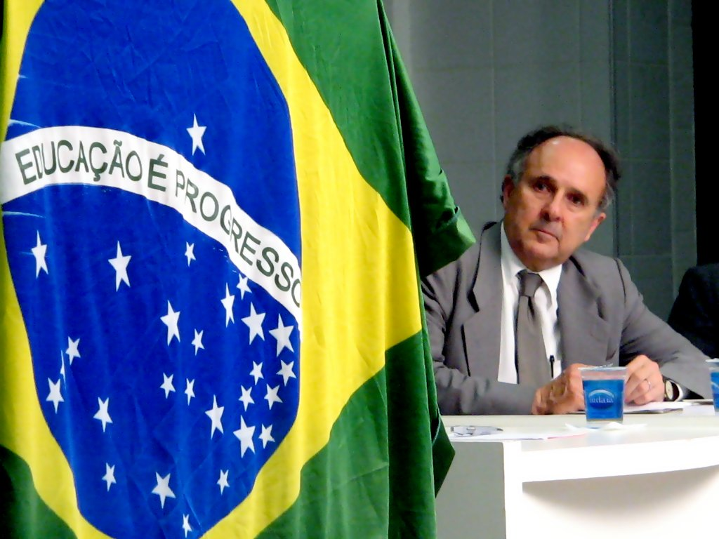 Cristovam Barque at a talk at Centro Universitário FIB. Original, translated: "Lost sight... - Would the senator be thinking about he lunch of his latest book, "Sou insensato"? Mystery... =P"